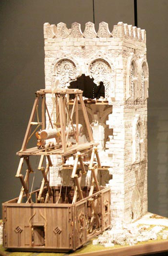 Leonardo3-MarioTaddei-LibroDeiSegretiRisultantiDaiPensieri-IbnKhalafAlMuradiDistruttore di fortezzeFigura23 - crop to get the enc. scope